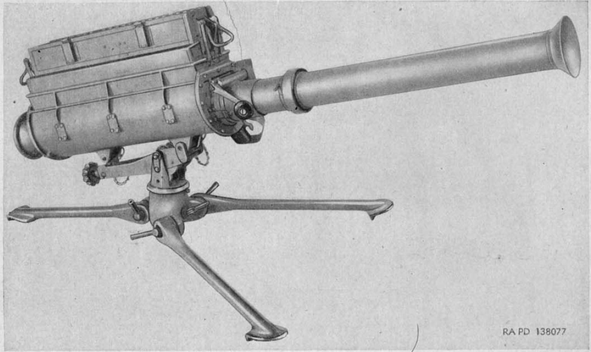 M25 repeating rocket launcher